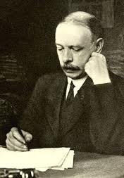 Photograph of Irish composer Charles Wood (1866–1926)